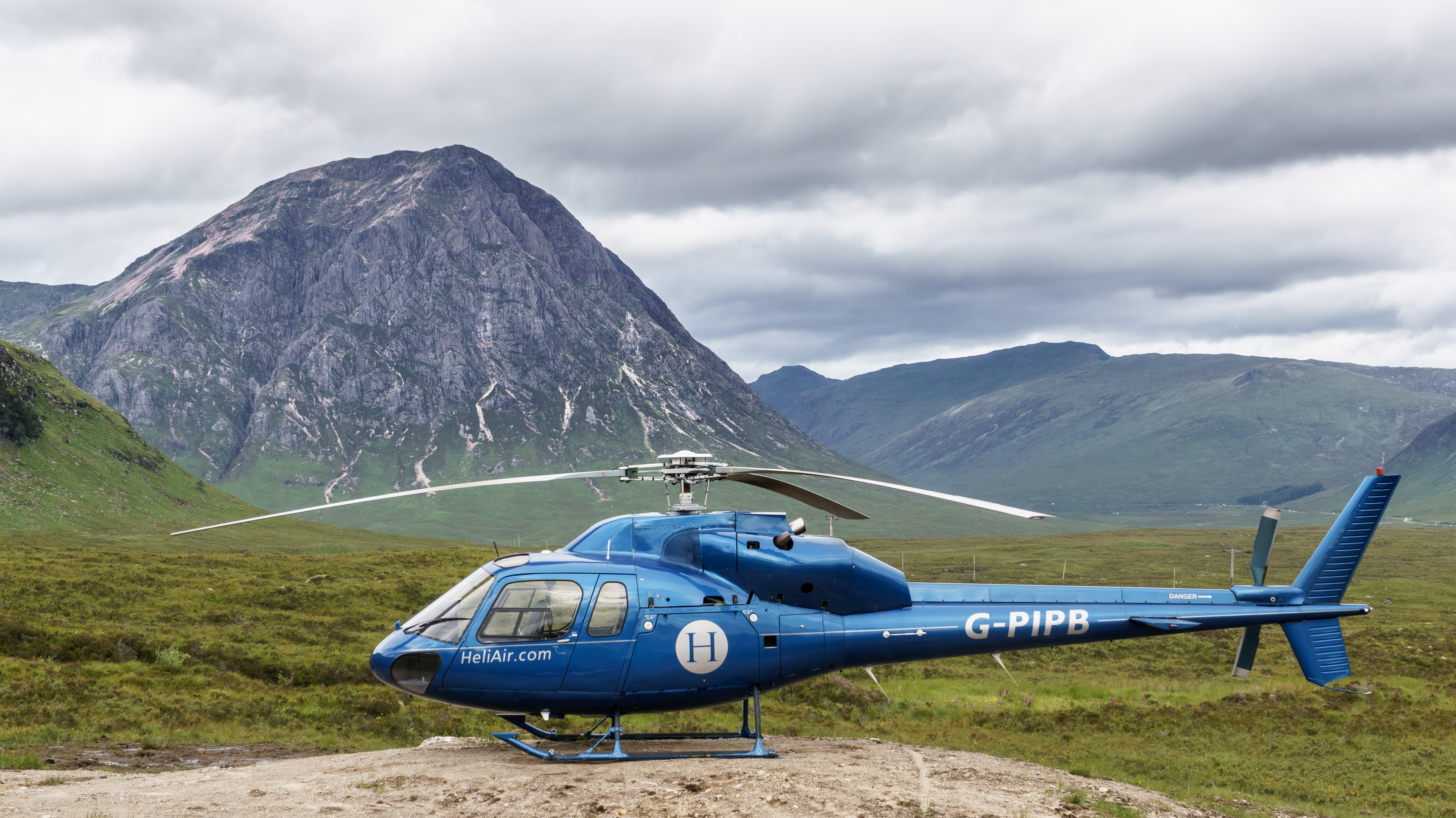 Airbus AS355F1 Twin Squirrel Helicopter with Buachaille Etive Mòr in the background.